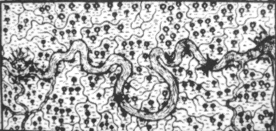 Bangkok To the mouth of the ChaoPraya in 1688